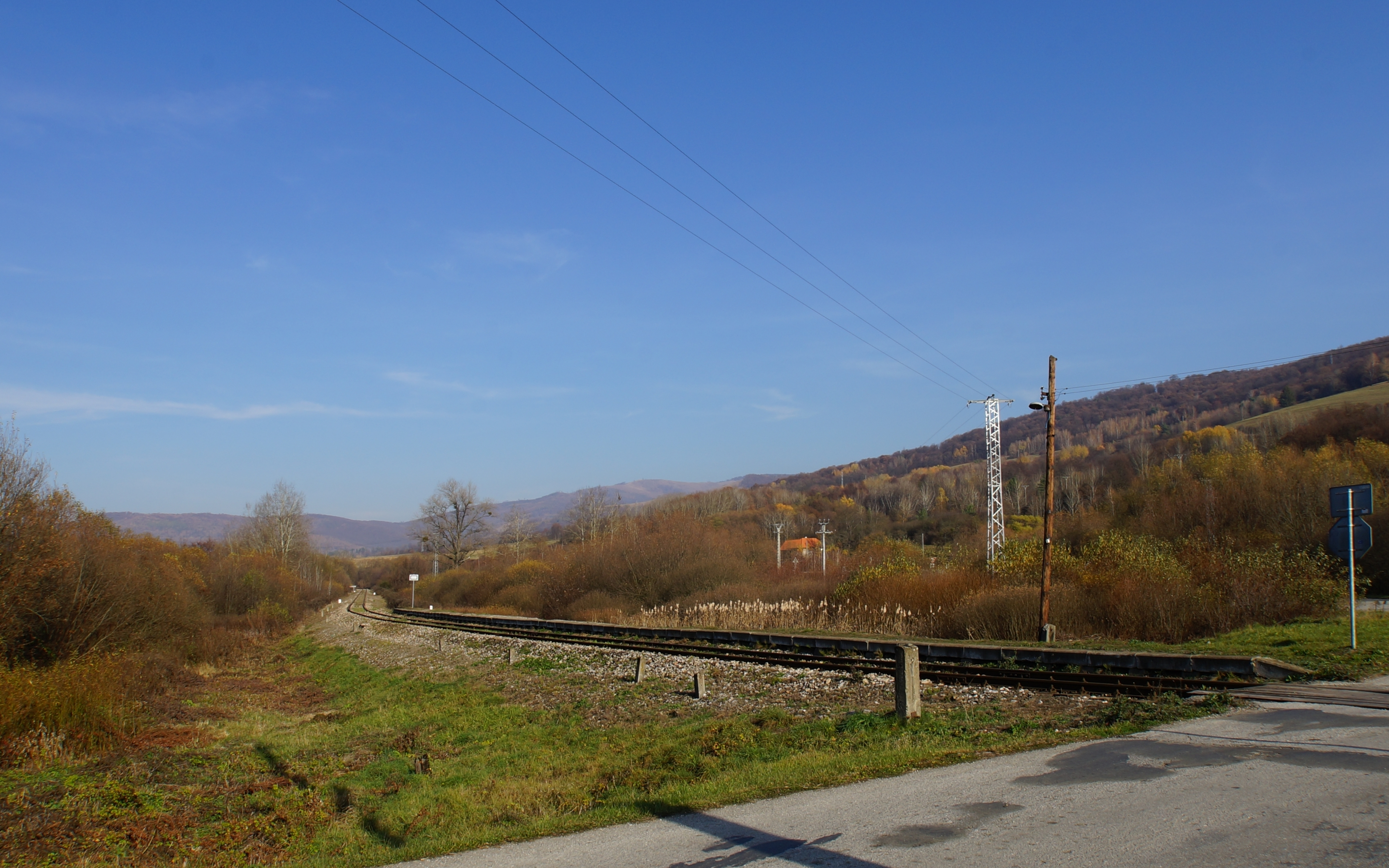 Nadabula is stretched out next to the Dobšiná-Rožňava railway